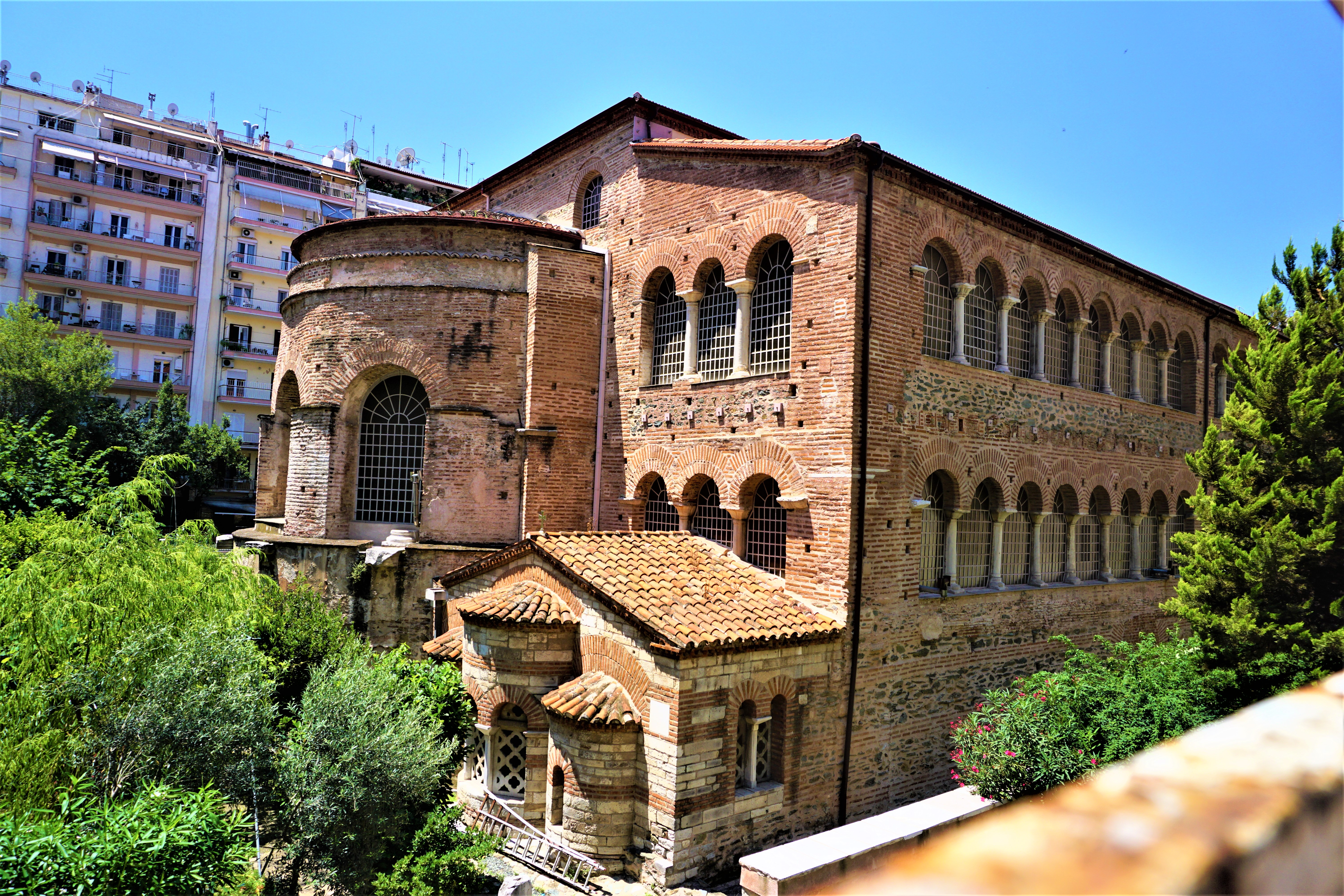 Church of the Acheiropoietos (Thessaloniki) by Joy of Museums